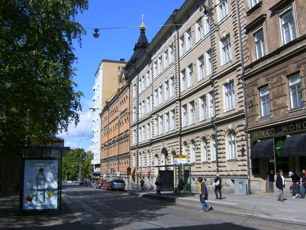 The western section of the street "Liisankatu", Helsinki, Finland